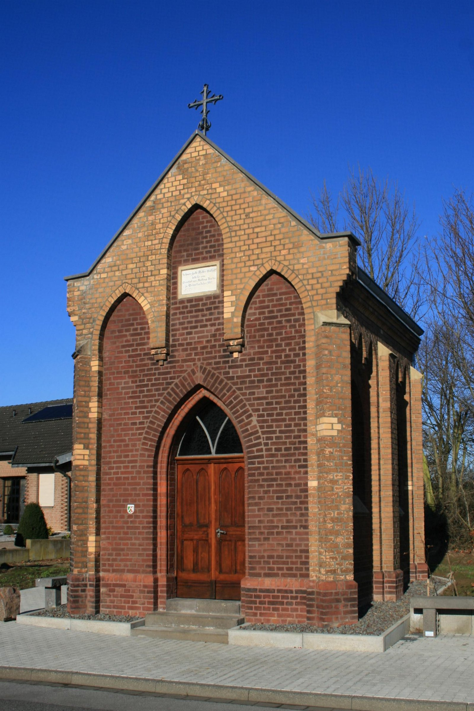 Cultural heritage monument No. 17 in Jülich